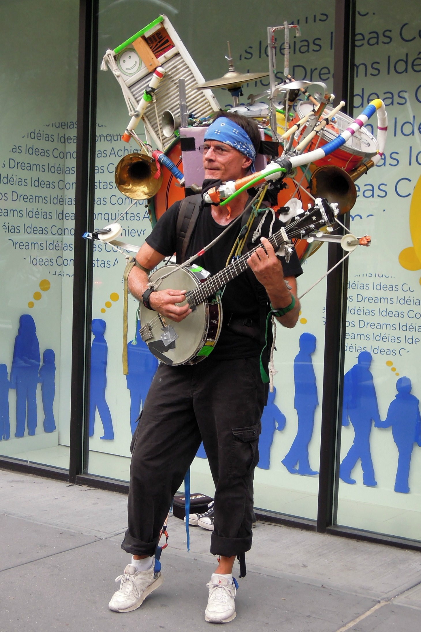 One-man band Jeffrey Masin in Manhattan, Jeff Masin on Twitter